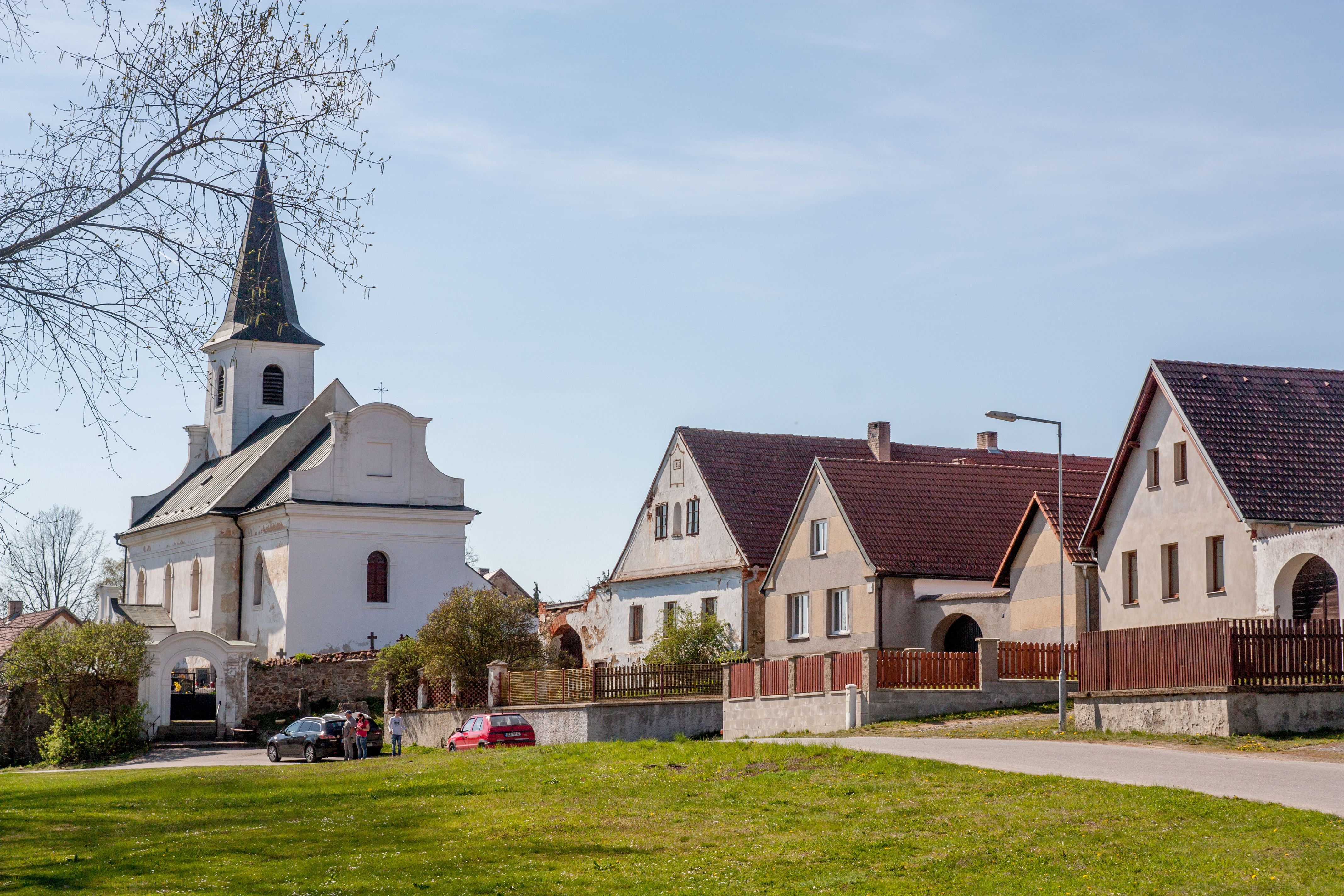 Houses in municipality Ratibořice, Tábor District, South Bohemian Region, Czechia